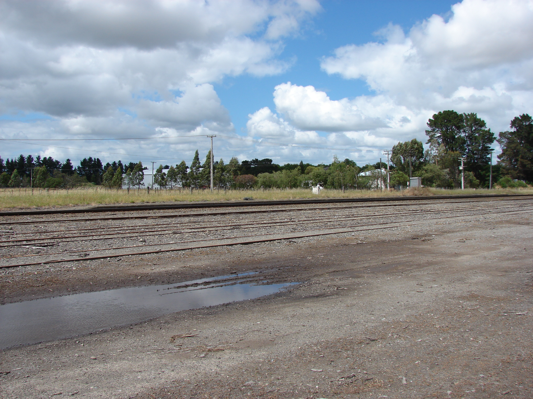 Waingawa railway station platform. Photographed by Matthew25187 on 2007-12-22.